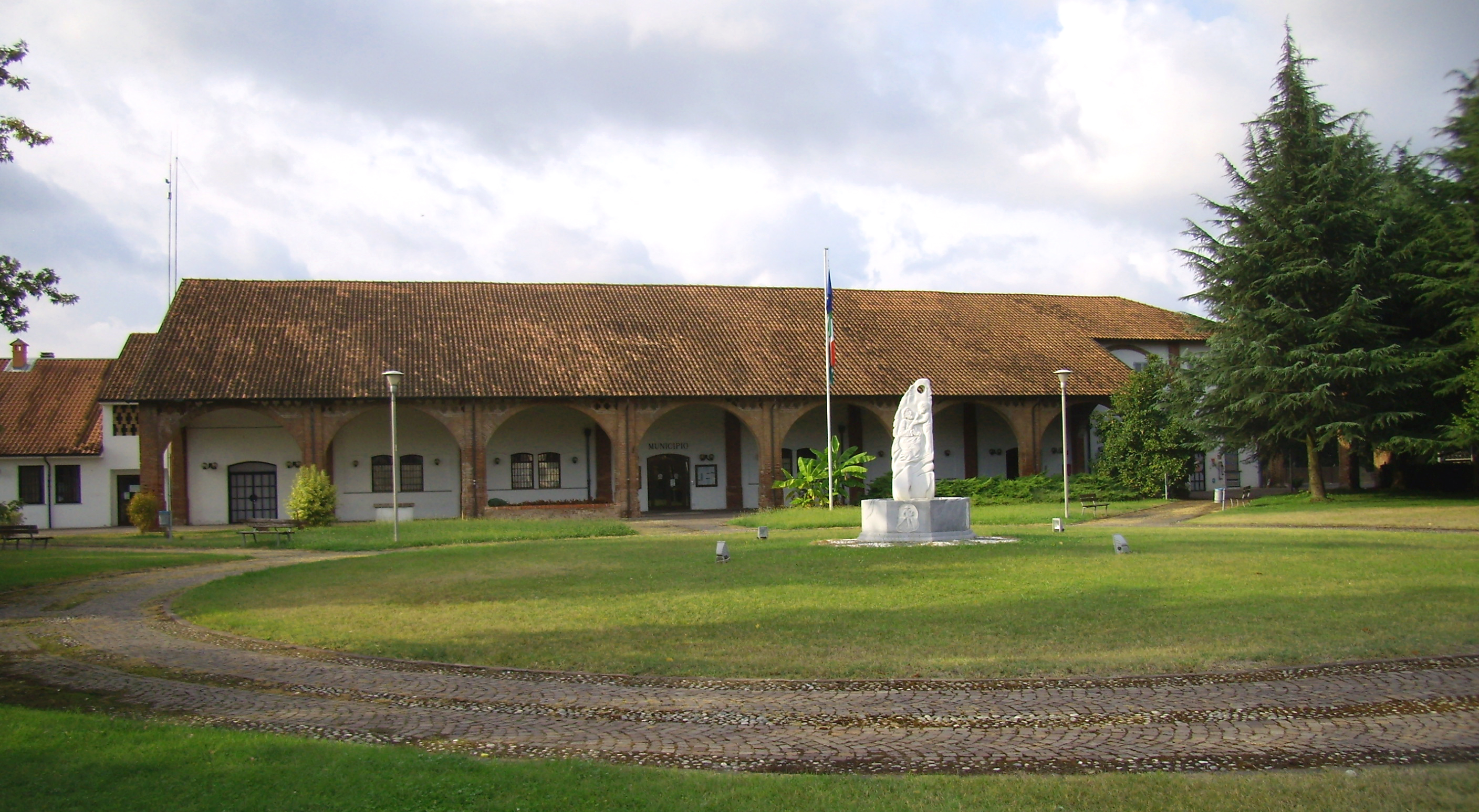 Town hall in Orio Litta.